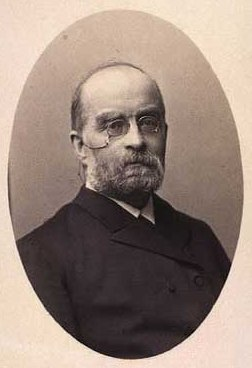 Carl Henrik Lange (1834-1900), Danish physician and psychologist